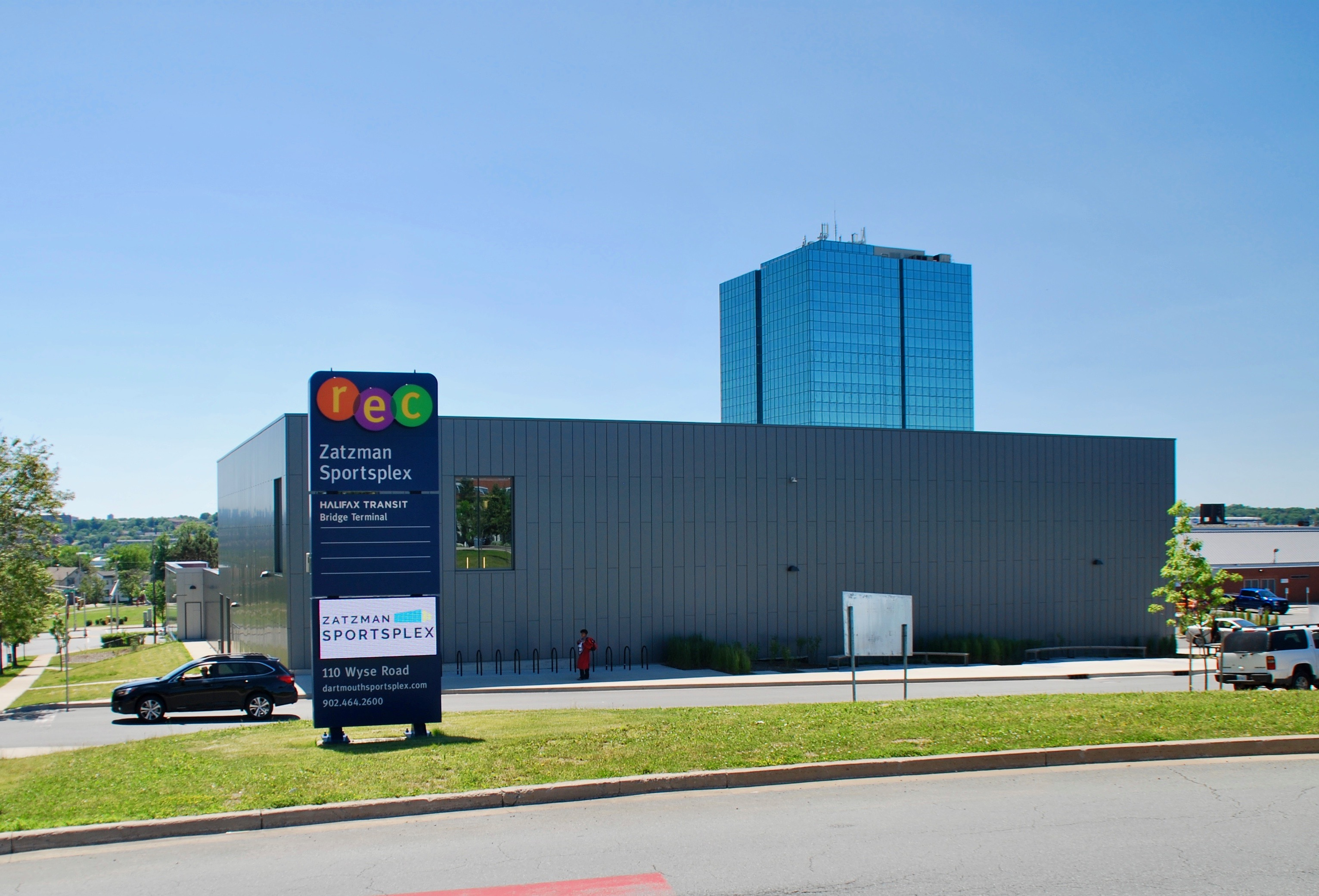 Zatzman Sportsplex sign and new gym, located on Thistle Street, Dartmouth NS